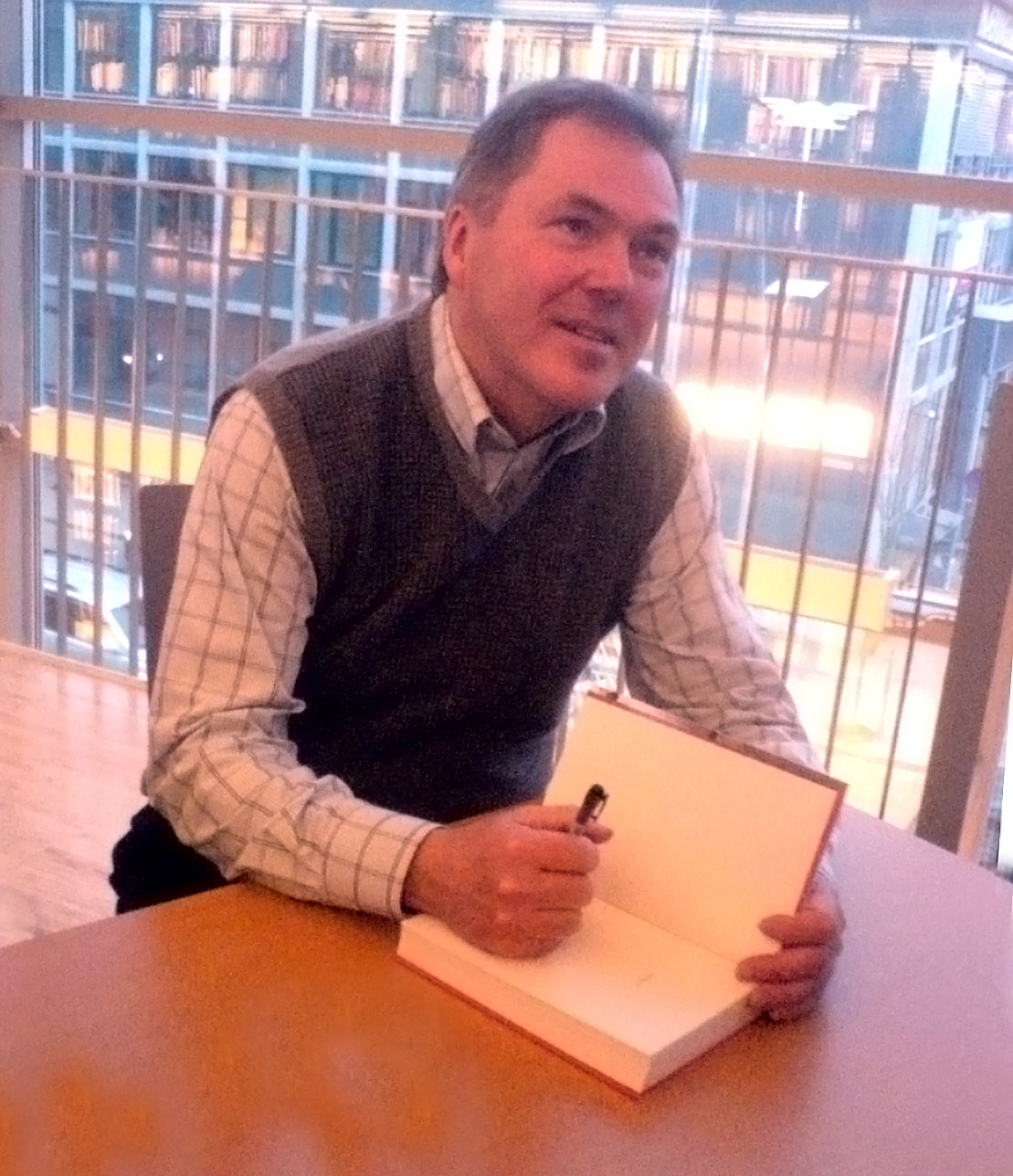 Author, newspaper editor and journalist Asbjørn Jaklin during a book signing in Tromsø